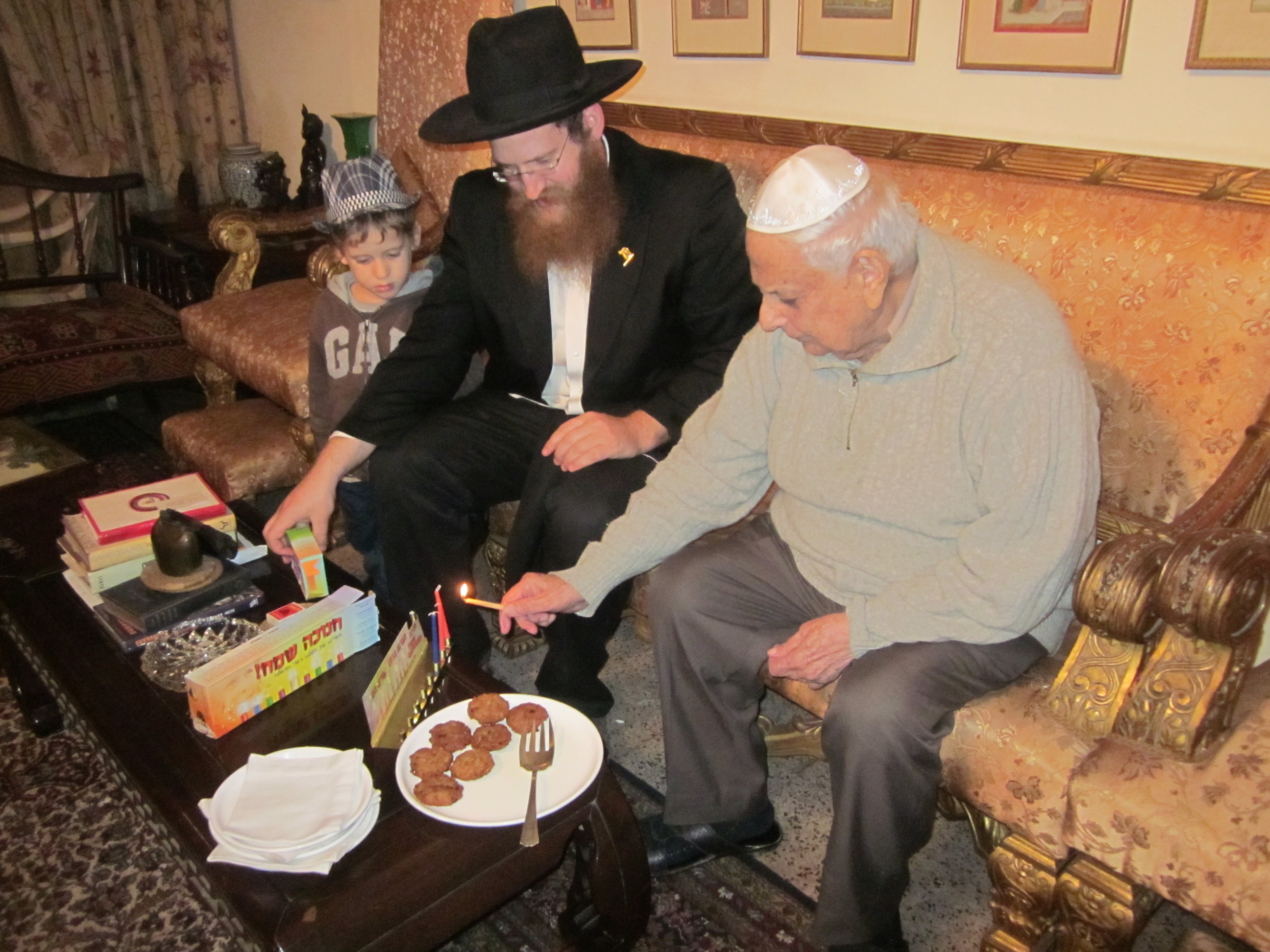 General Jacob (General JFR Jacob) Indian lighting Hanukkah candles, together with Rabbi Rabbi Orthodox Chabad-Lubavitch emissary in Delhi, Rabbi Schneur Koftz'ik